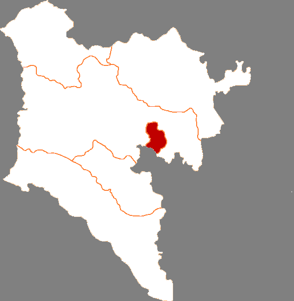 Locator map of Ulan Hot City in Hinggan League, Inner Mongolia, China